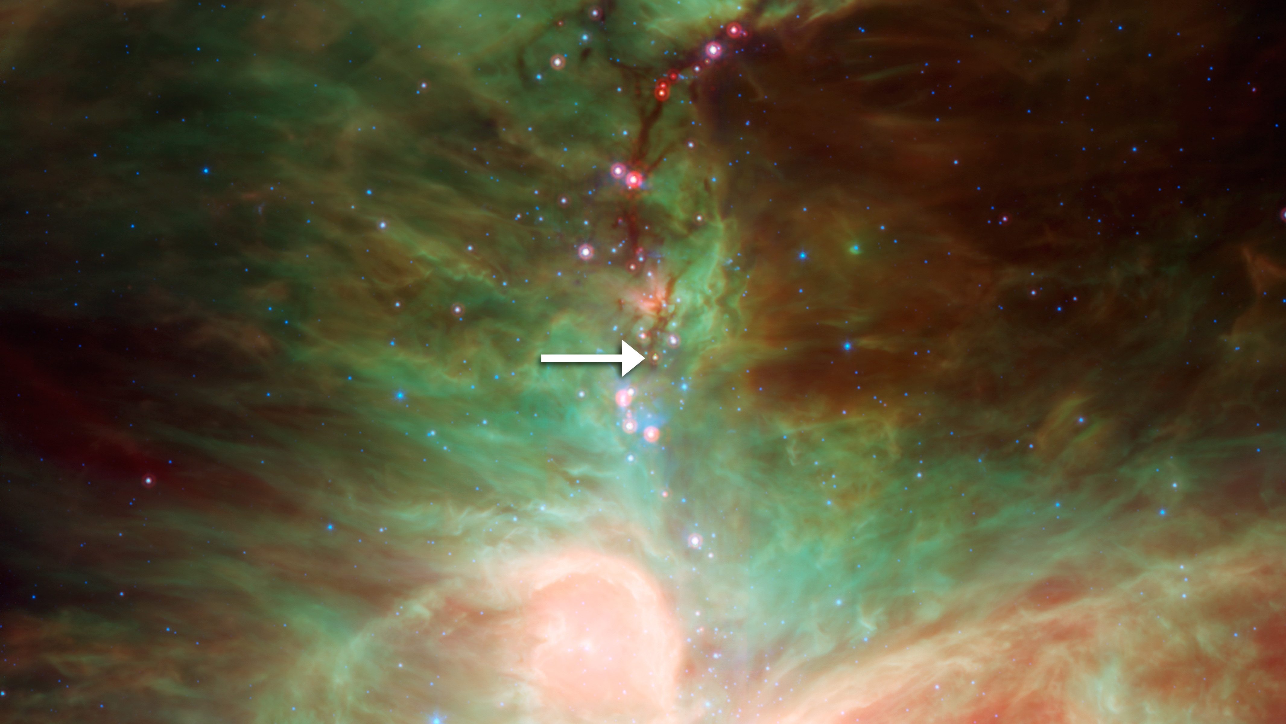 NASA's Spitzer Space Telescope detected tiny green crystals, called olivine, thought to be raining down on a developing star. An arrow points to the embryonic star, called HOPS-68. It is located in the dark filamentary cloud of cold dust and gas, over 5 light-years in length, located just north of the Orion nebula, which is seen here as the bright region at the bottom of the image.